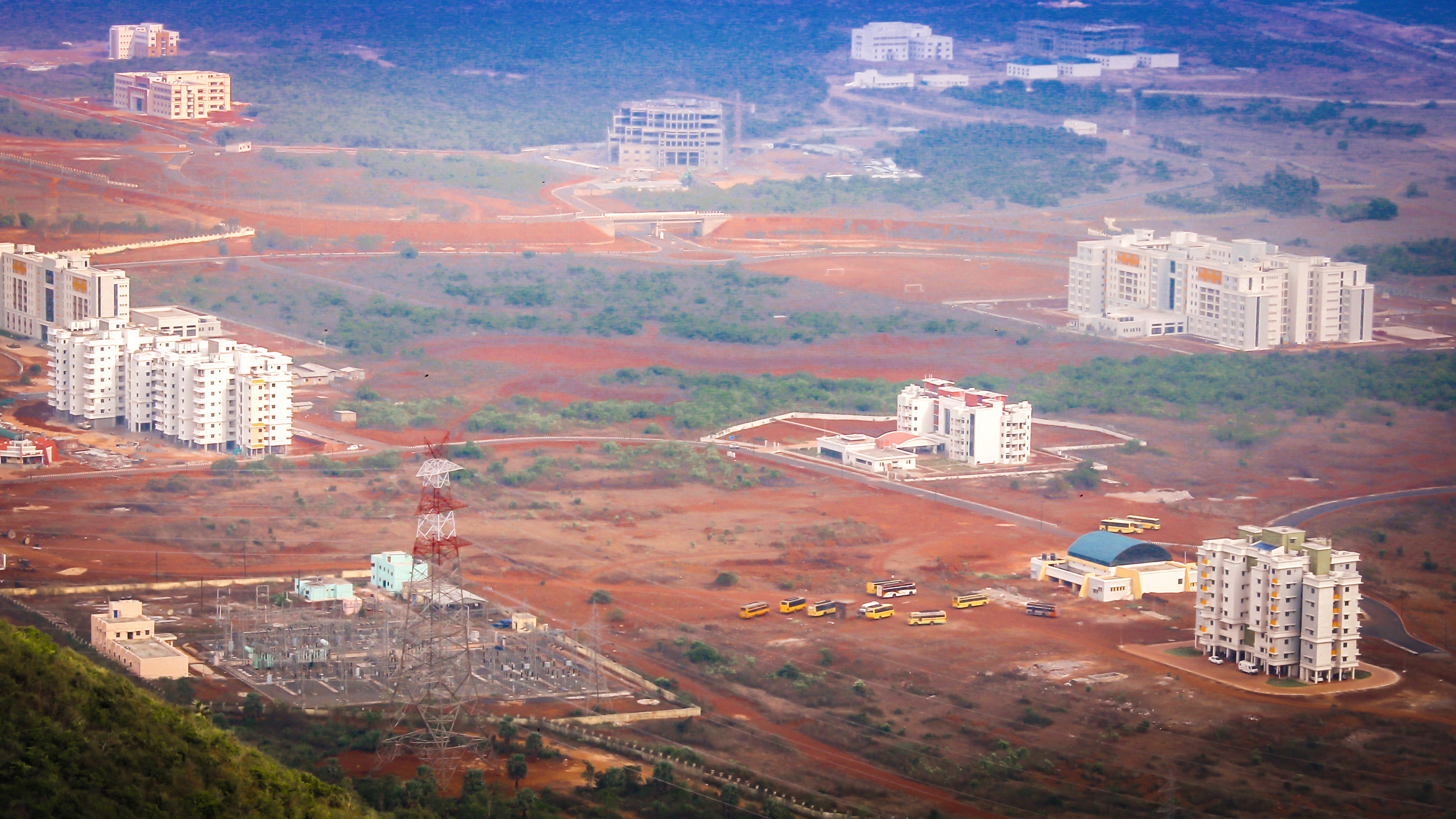 Campus View From top of Barunai Hills